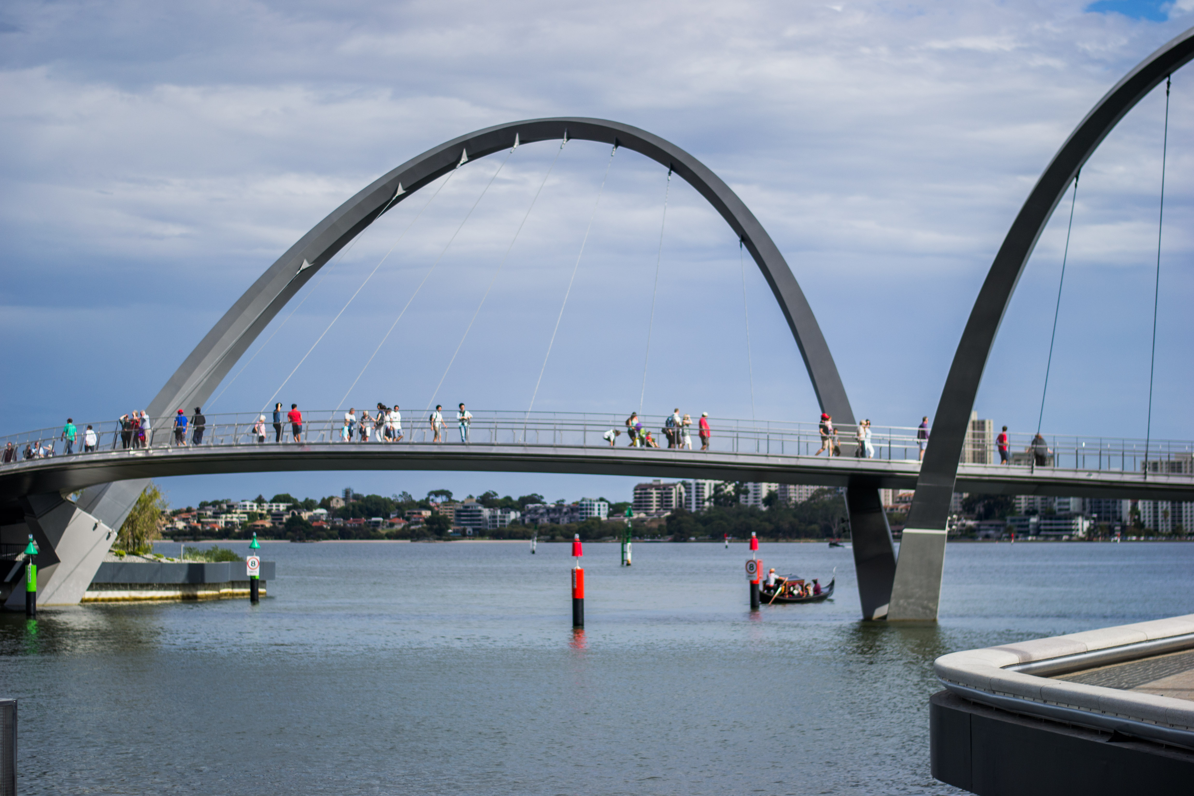 curve bridge at Elizabeth Quay